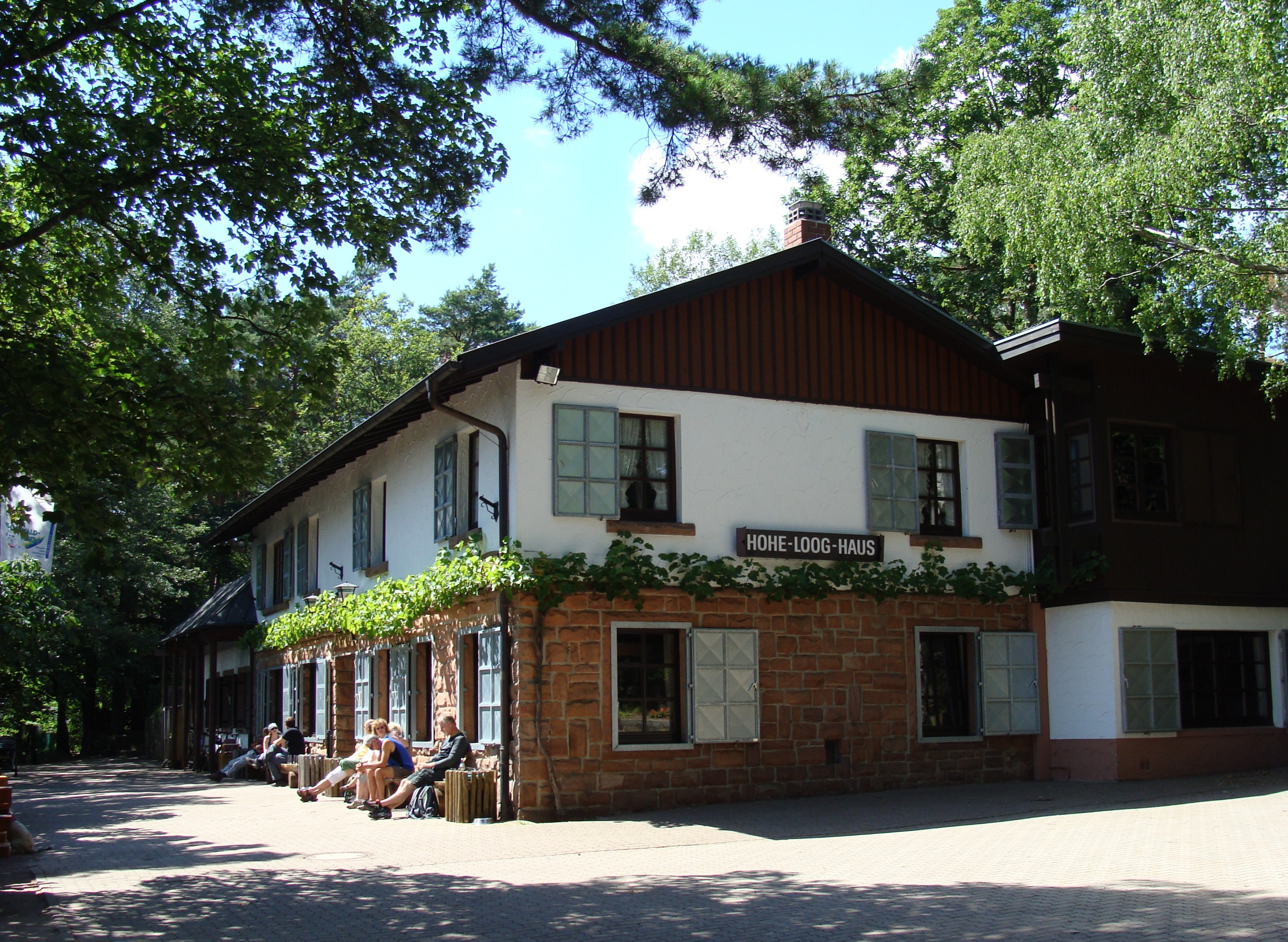 Hohe-Loog hut (Palatinate forest)